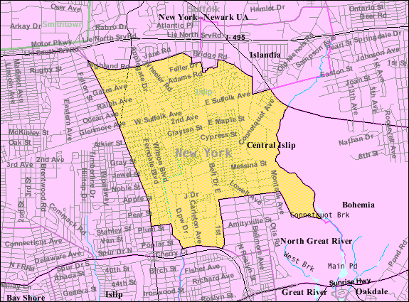 U.S. Census 2000 reference map for Central Islip